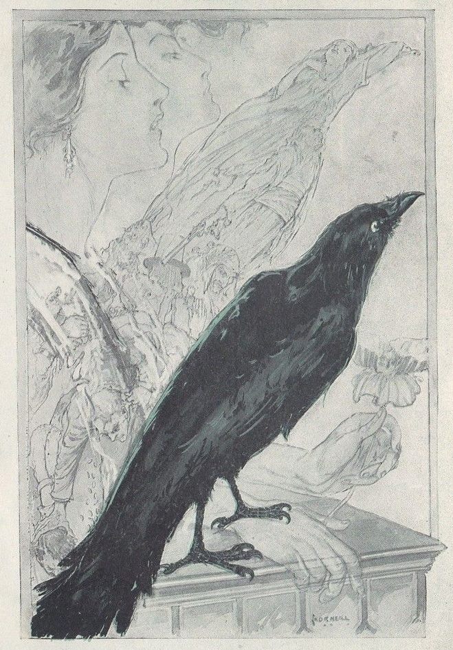 John R. Neill's illustration for Poe's The Raven in "The Raven and other Poems" (Chicago : The Reilly & Britton Co, 1910)